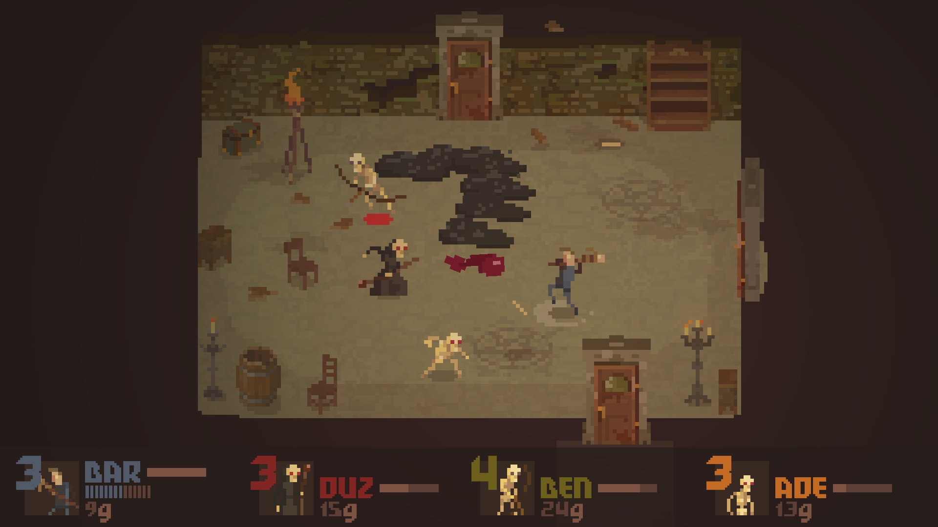 Screenshot from Crawl